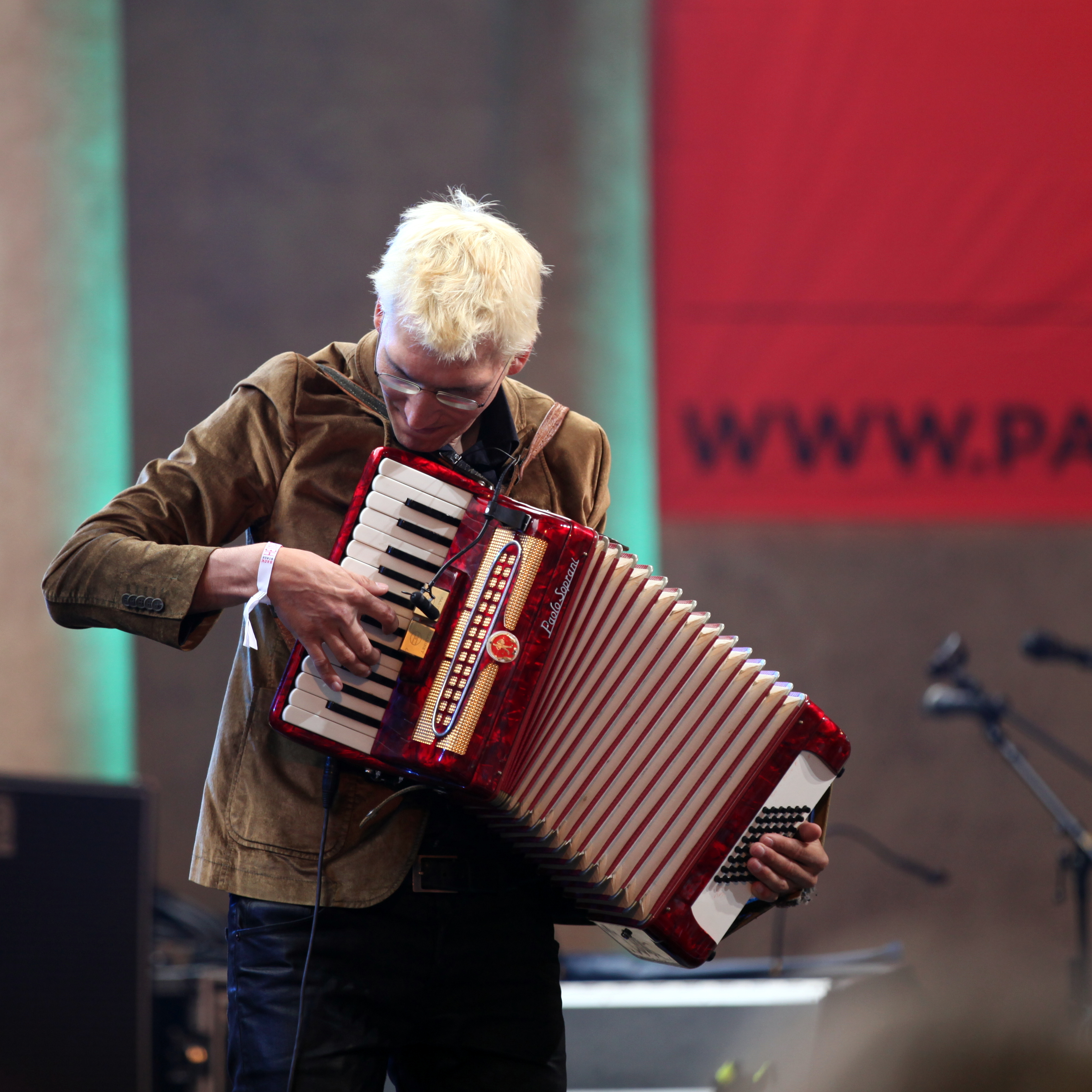 Bavarian Musician Christian Schmalz playing a Paolo Soprani Accordion